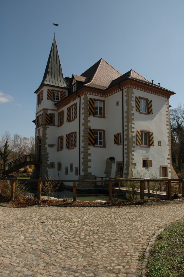 Entenstein Castle Main Building